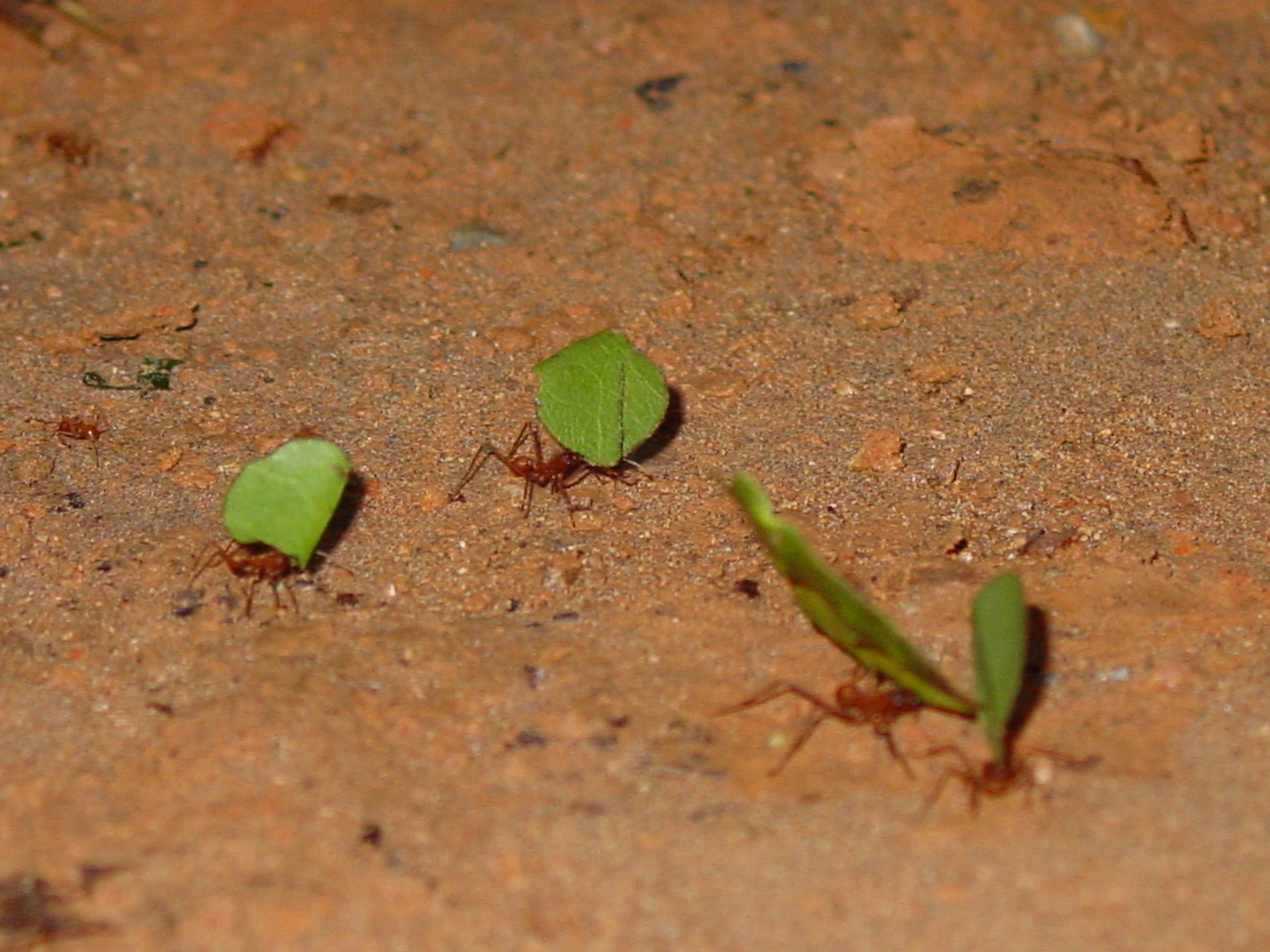 Leaf-cutter ants in Costa Rica. Taken at relatively close range (~1 meter) with flash, August 2003.